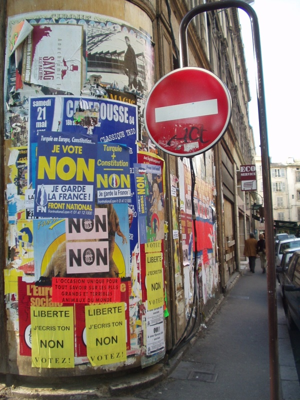 "One way" for the Non? Referendum campaign placards in France (Avignon) in May 2005.